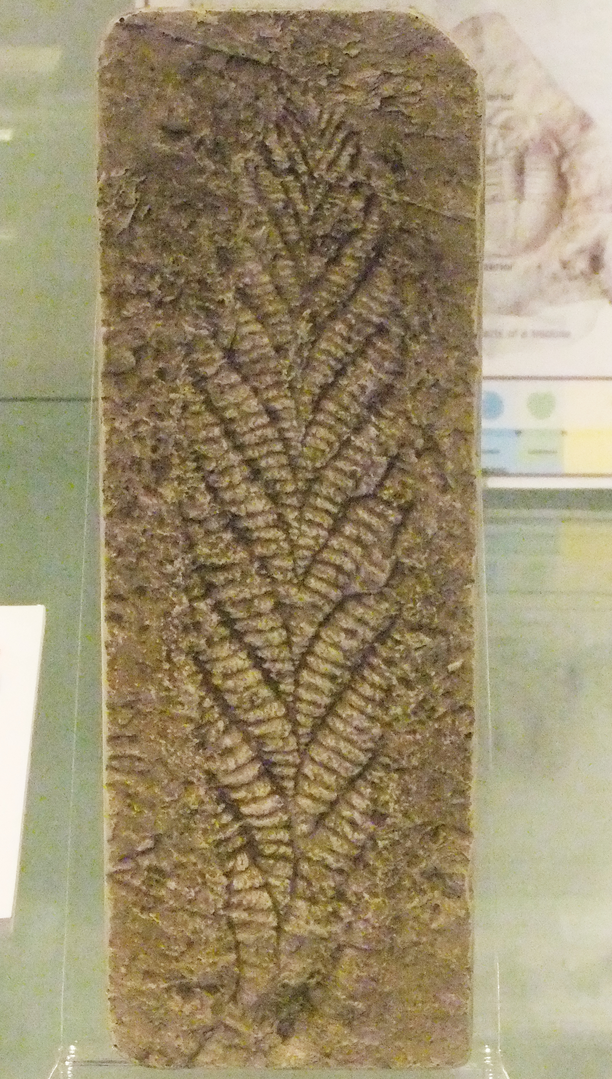 Replica cast of Charnia masoni fossil, Wrexham Museum, Wales.